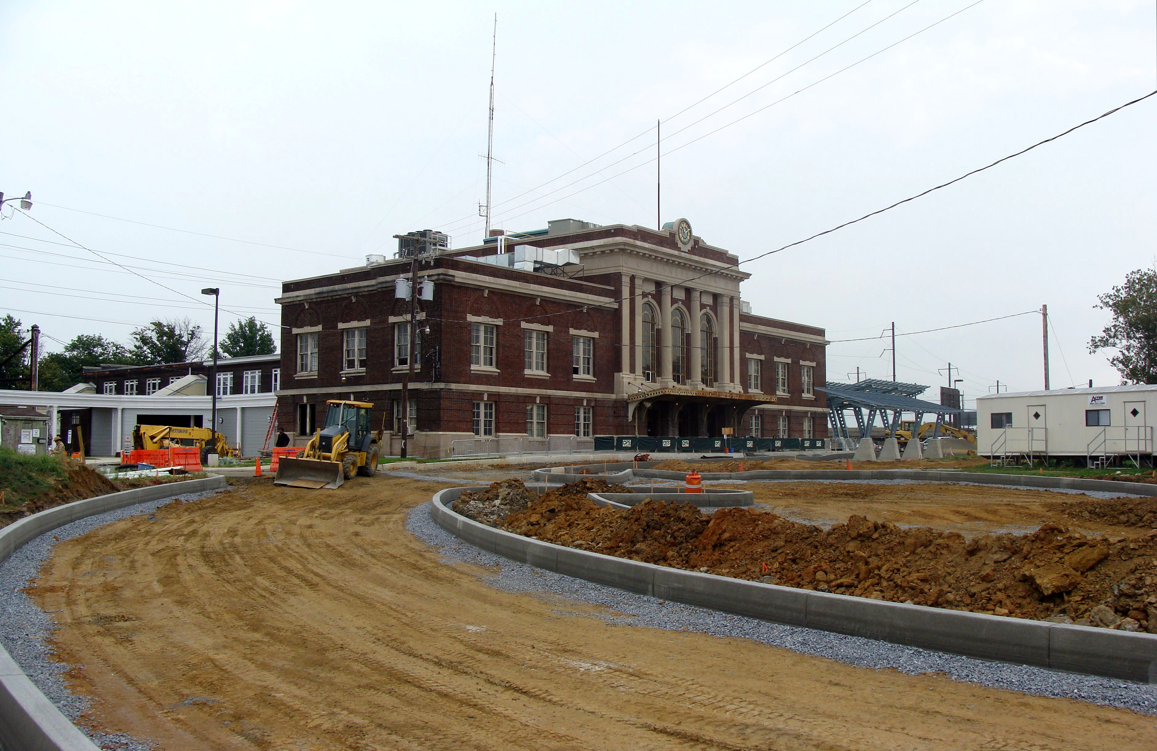 The Lancaster Amtrak station in Lancaster, Pennsylvania. The station was renovated from 2009 to 2012. It is a contributing property to the Lancaster City Historic District